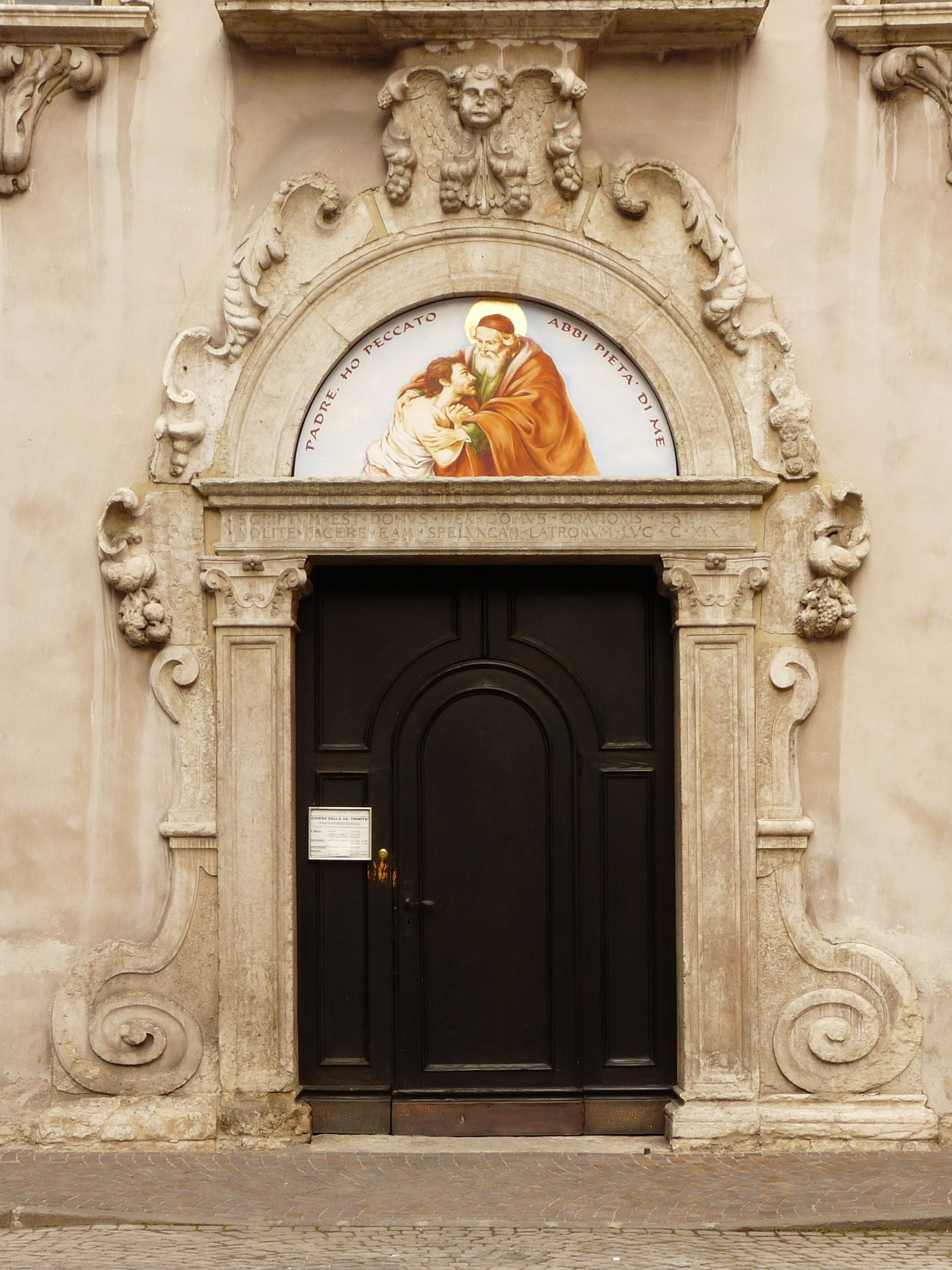 Trento (Italy): portal of the church of Santa Trinità. The inscription on the architrave (Luke 19:46) says: “SCRIPTVM EST DOMVS MEA DOMVS ORATIONIS EST NOLITE FACERE EAM SPELVNCAM LATRONVM LVC C XIX” Trento (Italia): portale della chiesa della Santa Trinità. L'iscrizione sull'architrave è tratta dal Vangelo secondo Luca 19:46.